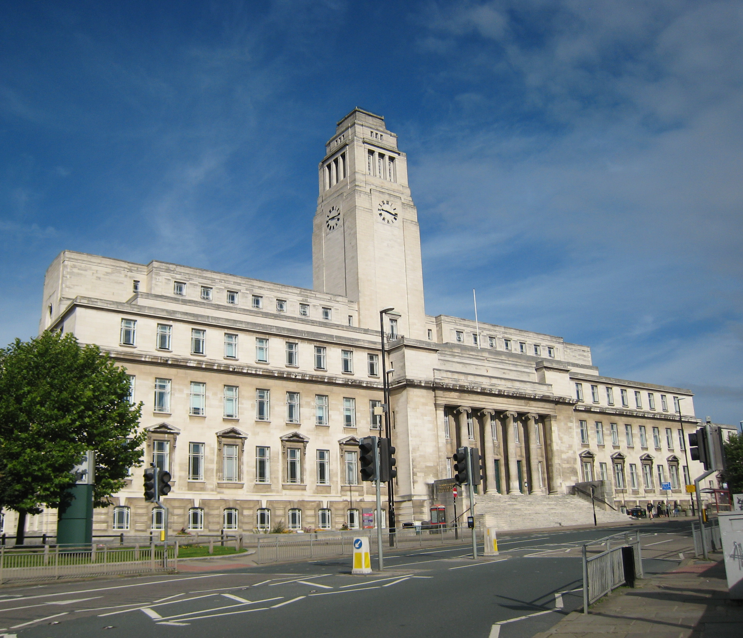 Parkinson Building, University of Leeds, Woodhouse Lane LS1.